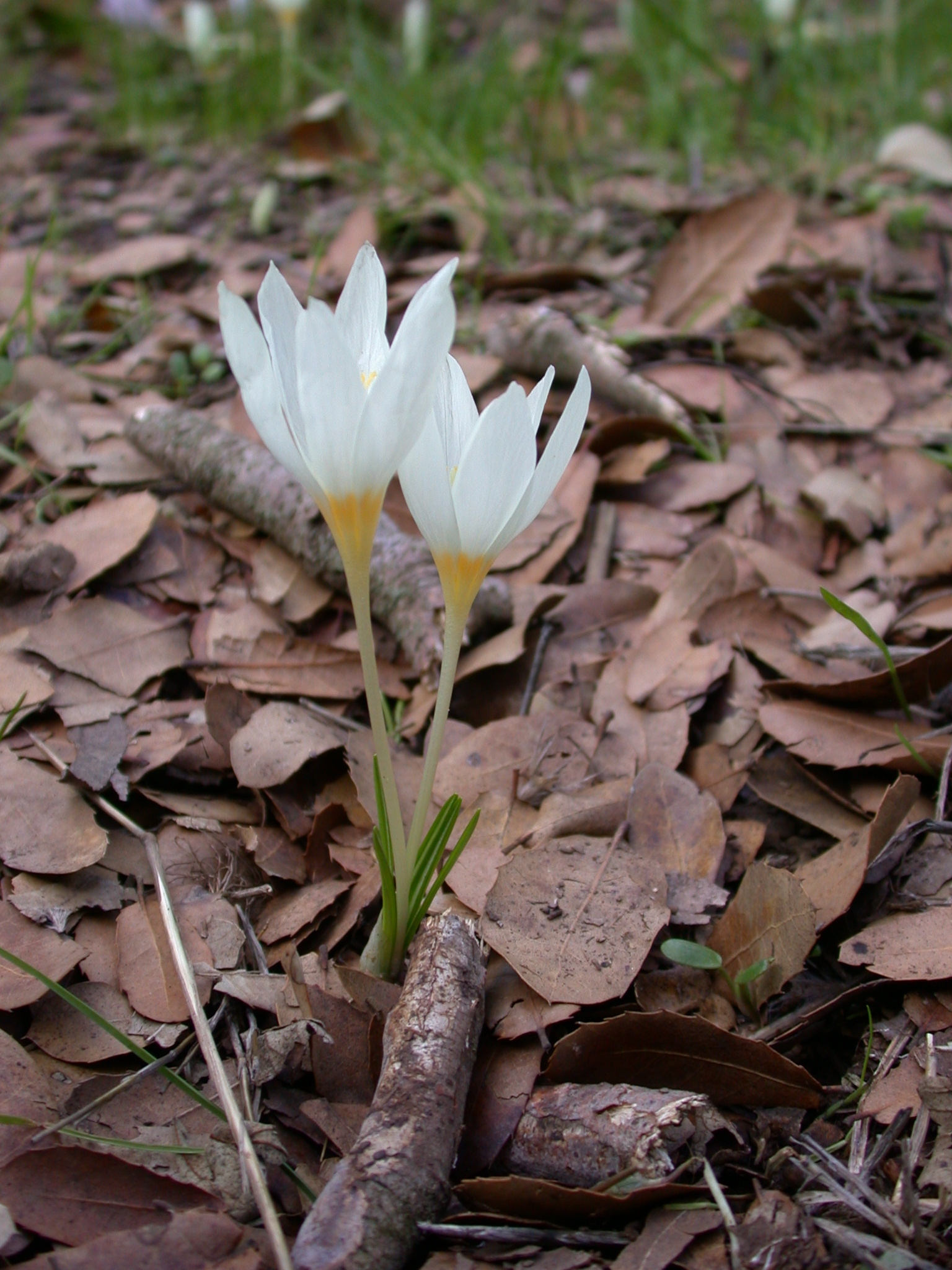 Crocus ochroleucus Boiss. & Gaill. (כרכום צהבהב), Ya'ar Odem, Golan Heights, Israel, November 2006.